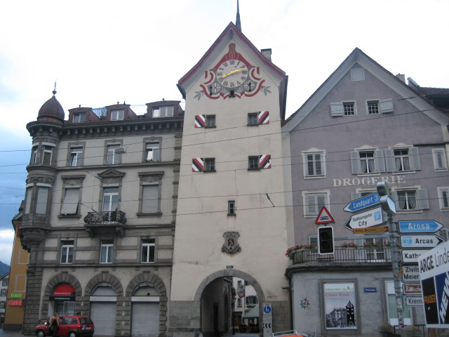 CHUR TOR KAI